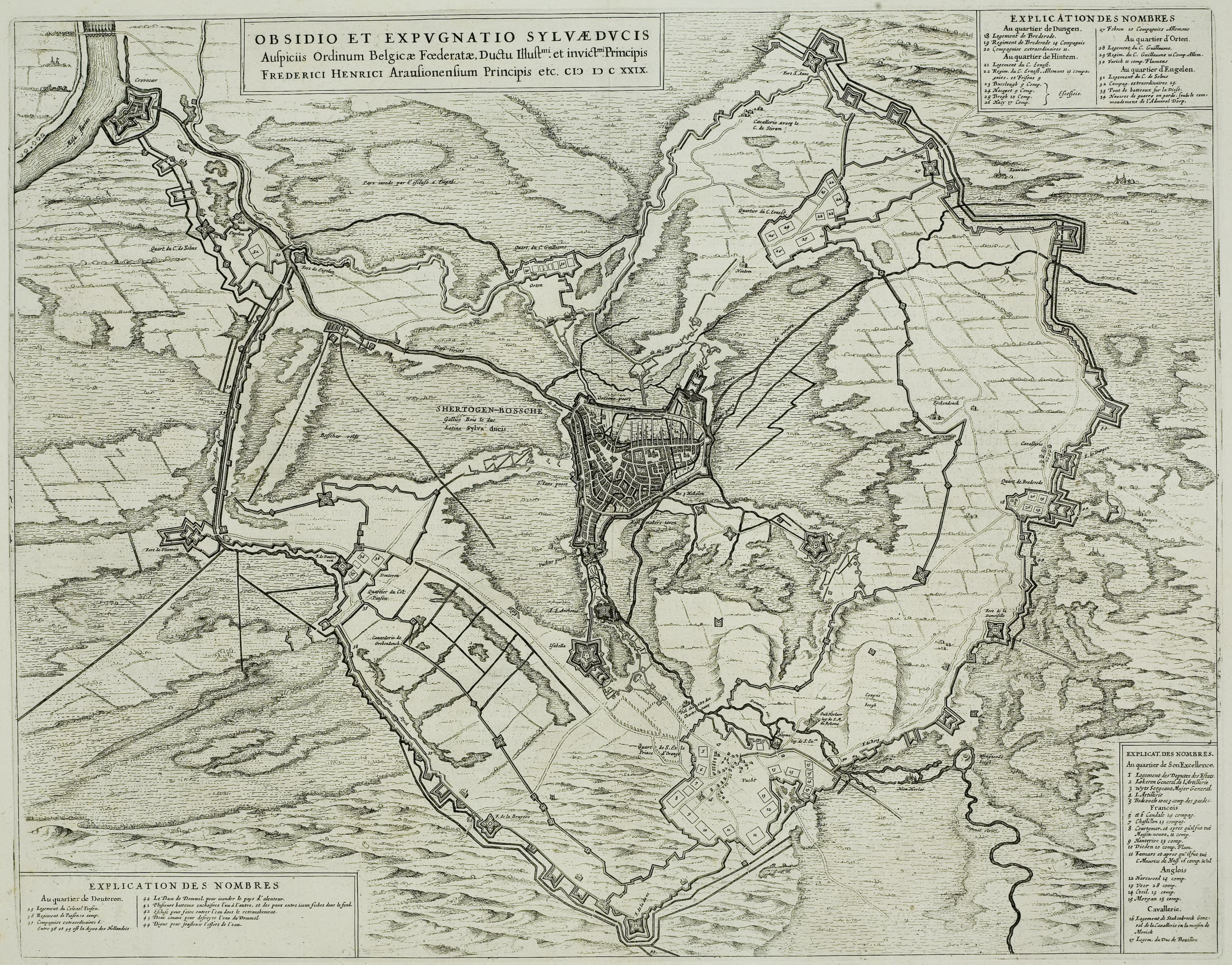 siege map of 's-Hertogenbosch by Frederik Hendrik, 1629